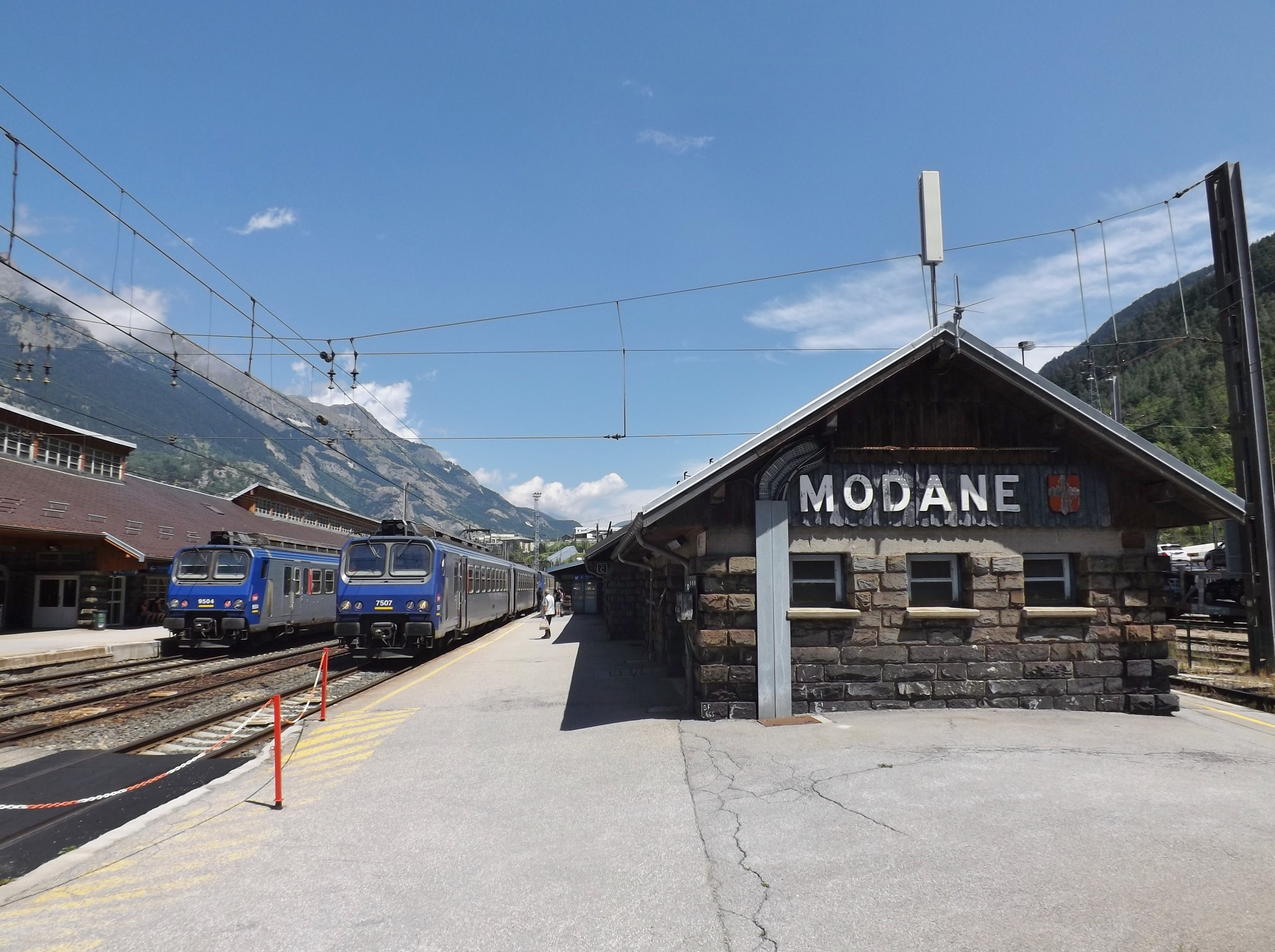 Sight of many SNCF Class Z 9500, one arrived from Chambéry (left) and one other bound for Chambéry (right) in Modane international railway station, in Savoie, France.